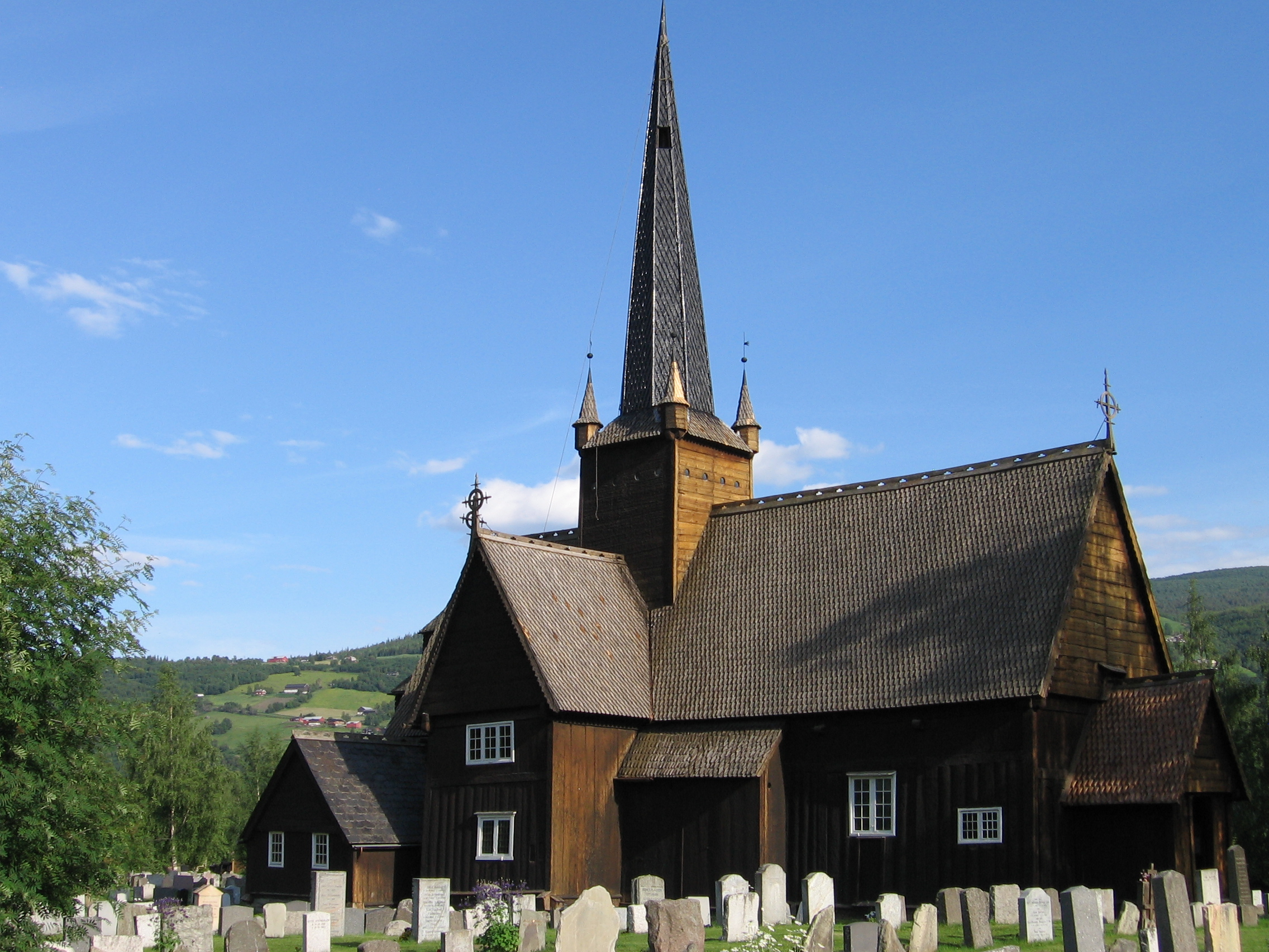 Vågå Kyrkje in Vågåmo, Norway. Modified Stave church.